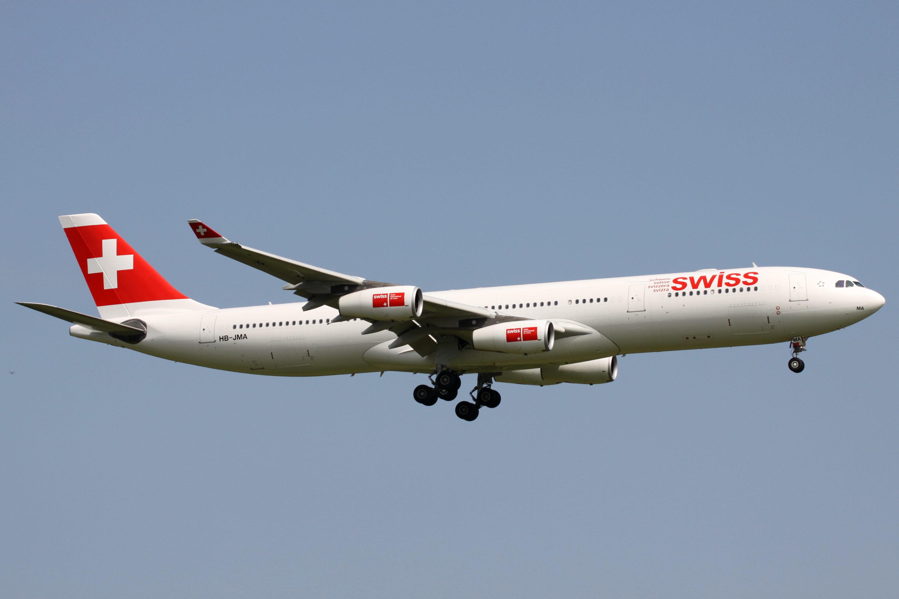 Final Approach to Runway 16R, Narita International Airport